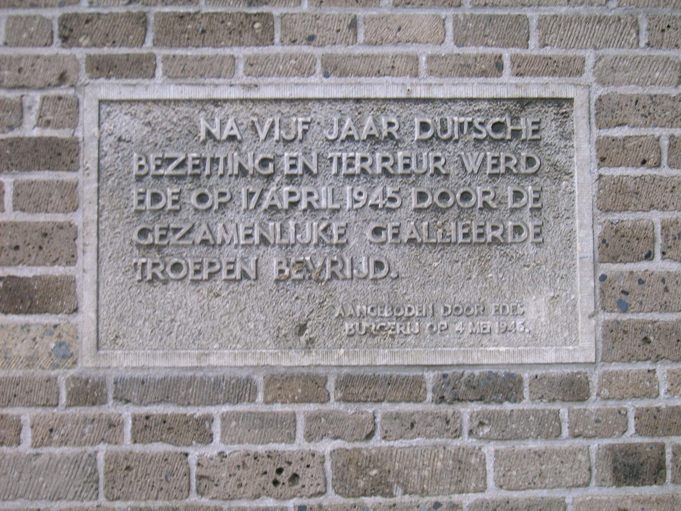 A sign on the Church in Ede in memorial of the Second World War